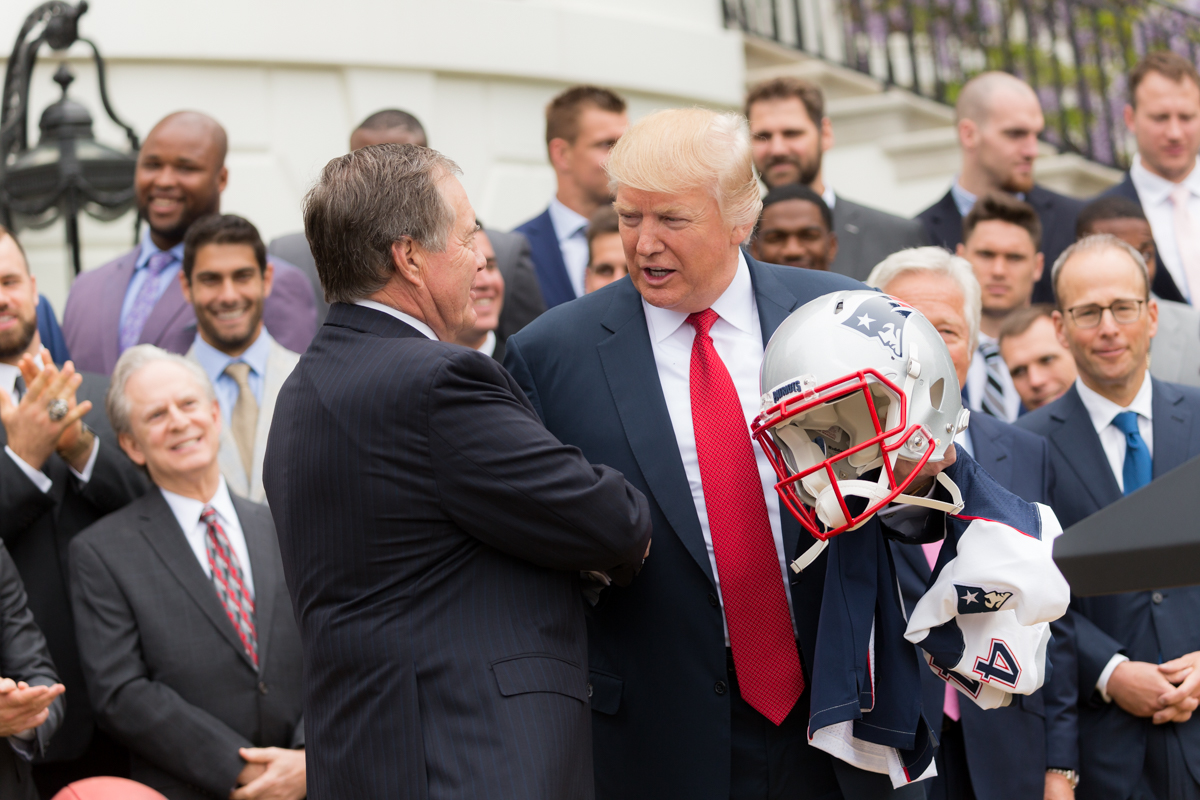 The Patriots presented President Trump with an official championship jersey, helmet, and football. This is the Patriots fifth time visiting the White House and the first time during the Trump Administration.